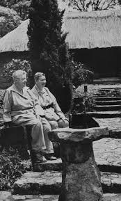 Marian and Hope Gamwell sisters in 1964. Both were in the FANY and Marian lead it